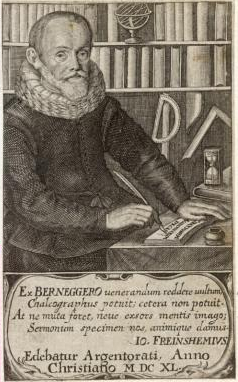 Matthias Bernegger (Latin: Bernegerus, also Matthew;[1] born 8 February 1582 in Hallstatt, Salzkammergut, died 5 February 1640 in Strassburg) was a German philologist, astronomer, university professor and writer of Latin works.